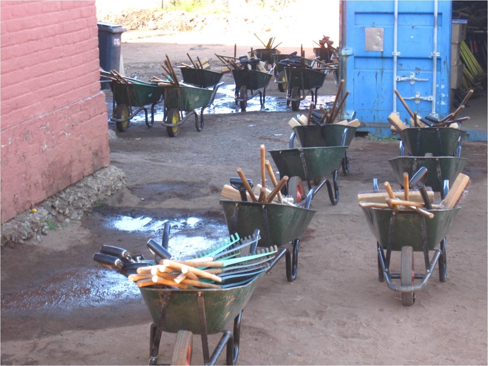 This is part of the pool of resources used at the Ntambanana (Kwazulu) Organization Workshop, South Africa November 2012